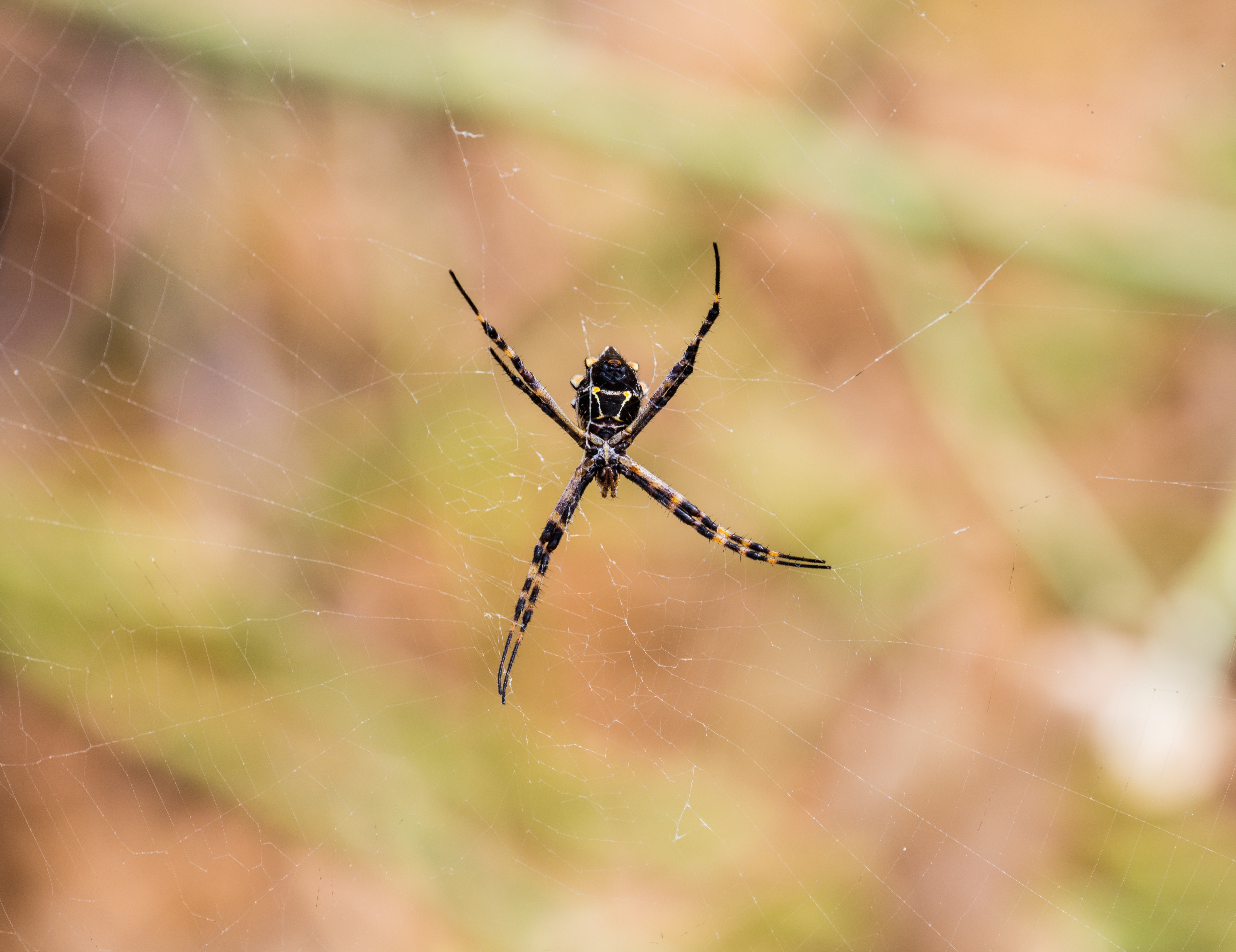 Yellow Garden Spider (Argiope aurantia), Punta Pitt, San Cristobal island, Galapagos islands, Ecuador